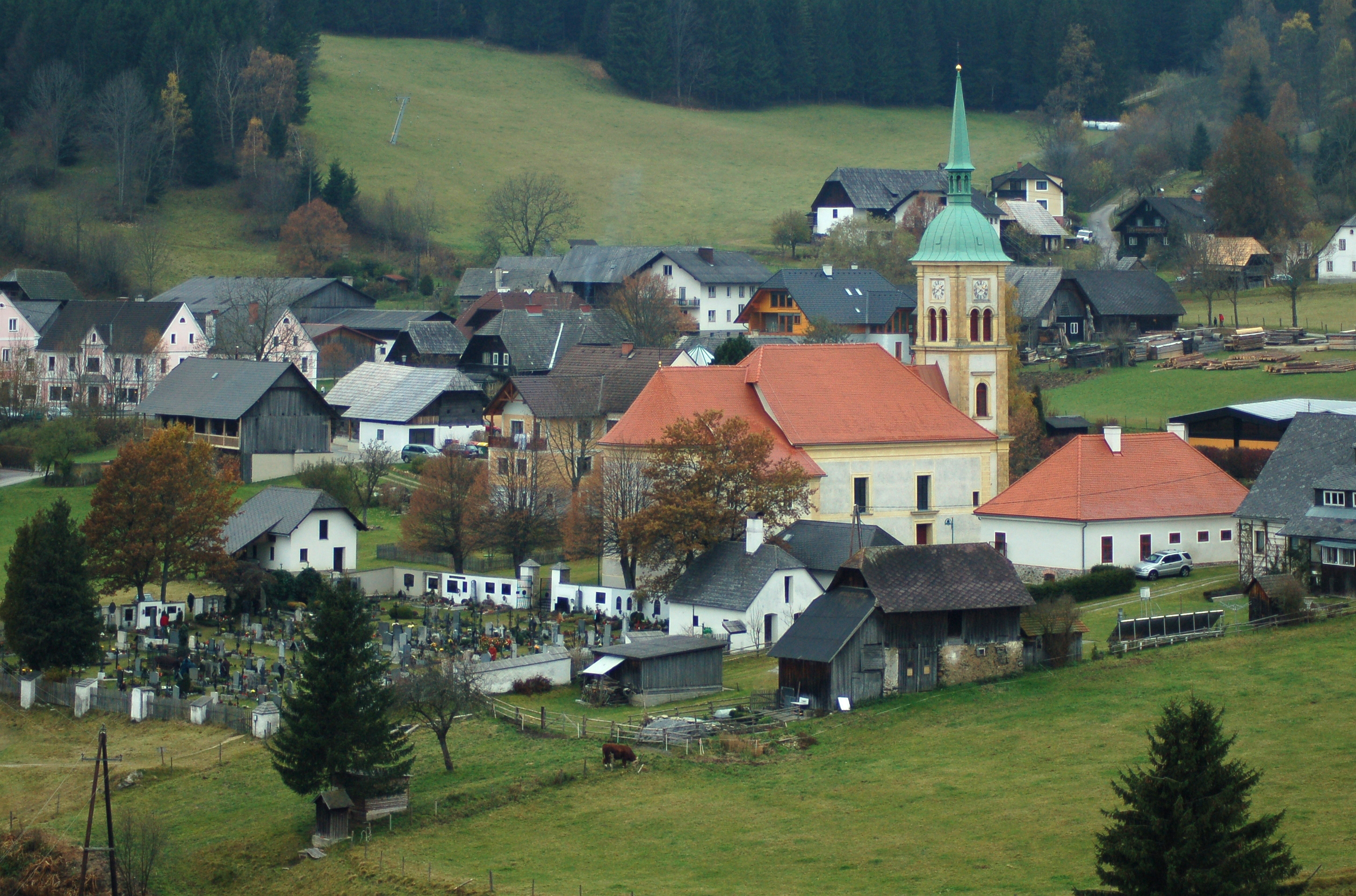 Rettenegg, Styria, as seen from the war memorial. Parish church Saint Florian, cemetery and mortuary are all cultural heritage monuments.